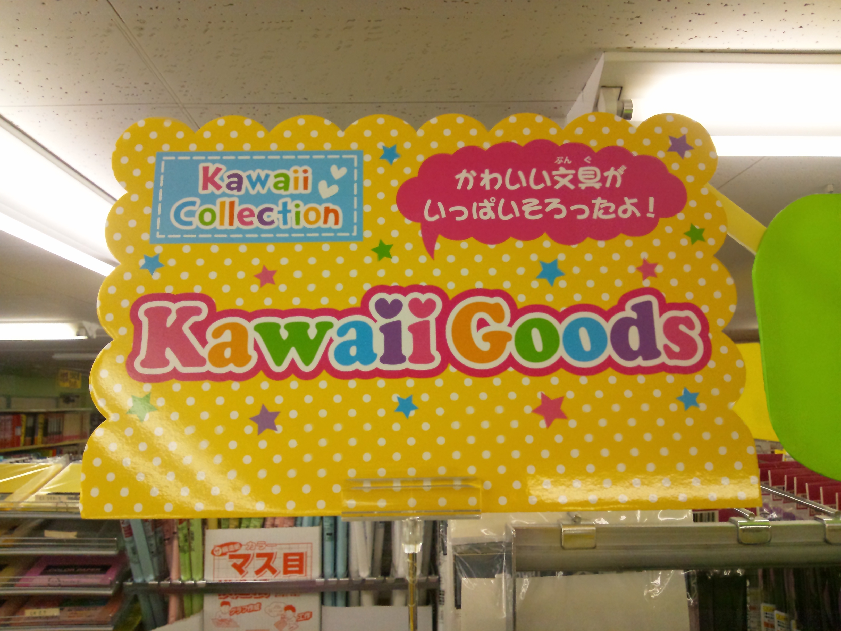 Kawaii goods outlet in 100 yen shop in Ofuna, Japan